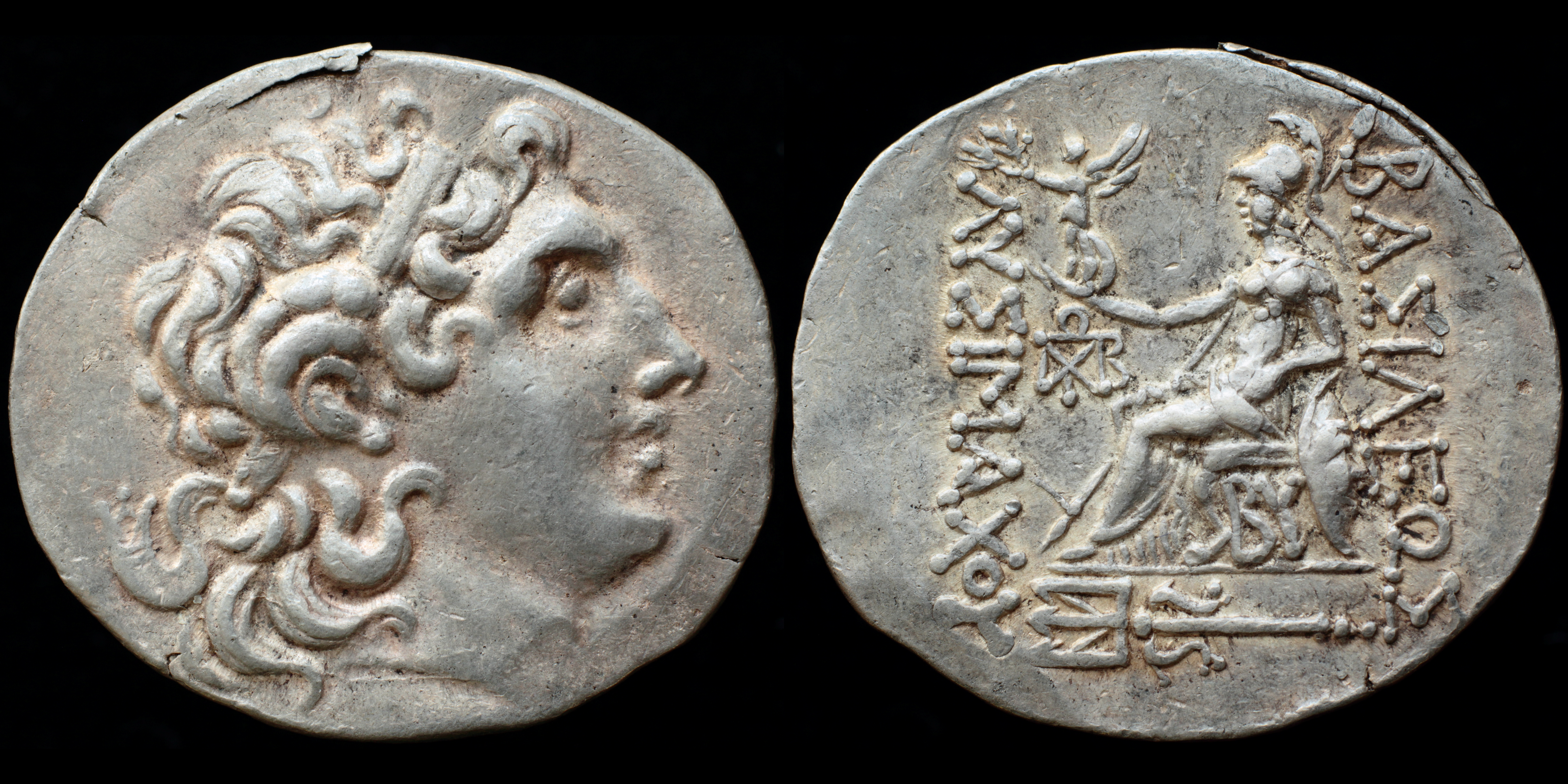 AR tetradrachm struck in Byzantion 150-100 BC in the name of Lysimachos obverse:Head of the deified Alexander the Great right; reverse: Athena Nikephoros seated left ΒΑΣΙΛΕΩΣ / ΛΥΣΙΜΑΧΟΥ monogram (ΠΩΛΥΒ) to left; ΒΥ below throne trident in exergue references: Dewing 1361, Müller 204. weight:16,87g diameter: 35-32mm